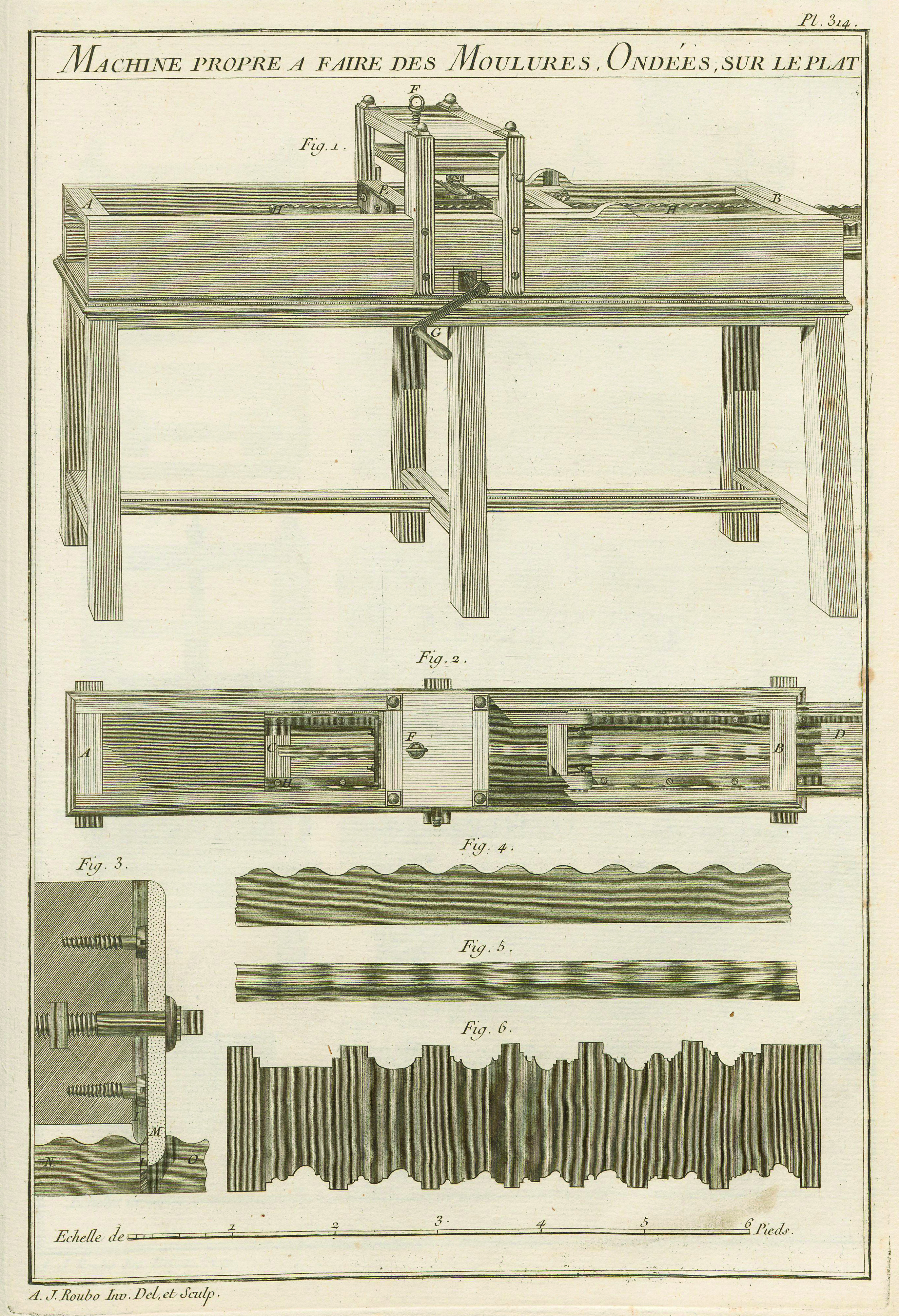 Engraving by André-Jacob Roubo from encyclopaedia L'Art du Menuisier, Premiere partie (section 3 - part 3, plate 314) showing machine for making rippled moldings.